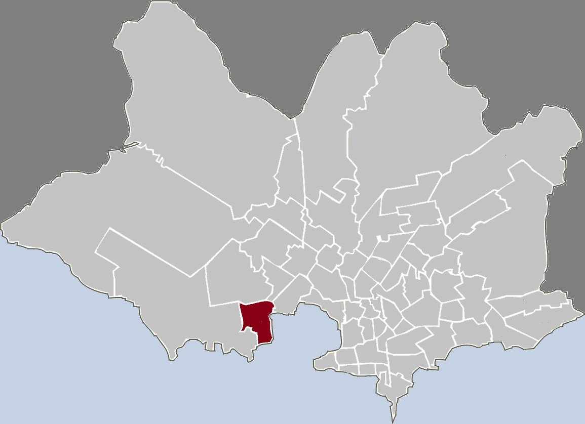 Map highlighting the given barrio in Montevideo.